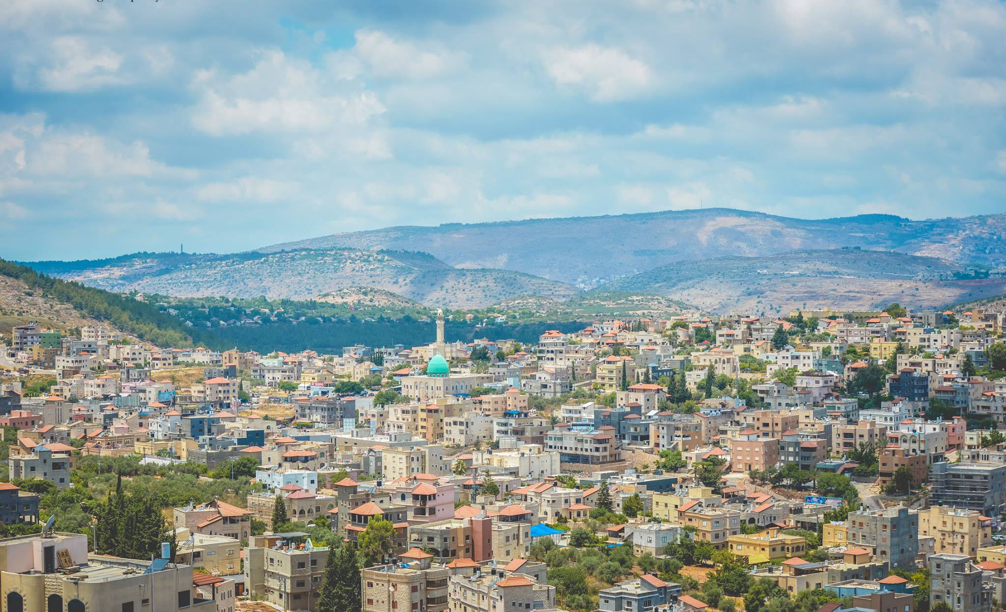 sakhnin, Cities in Israel